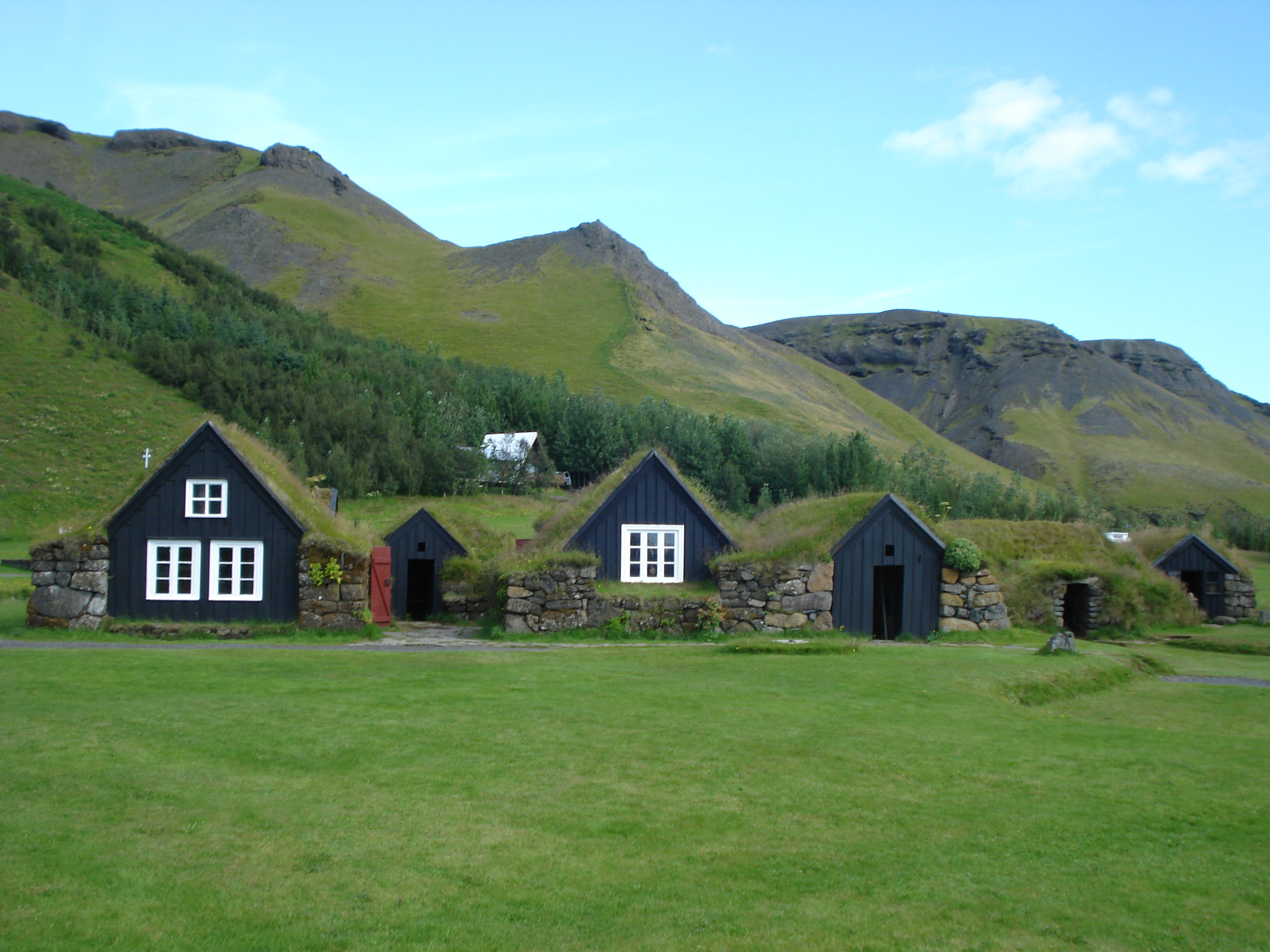 Old farm house at Skógasafn, Iceland